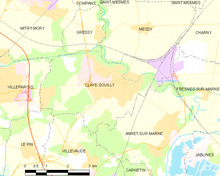 Map of French municipality Claye-Souilly